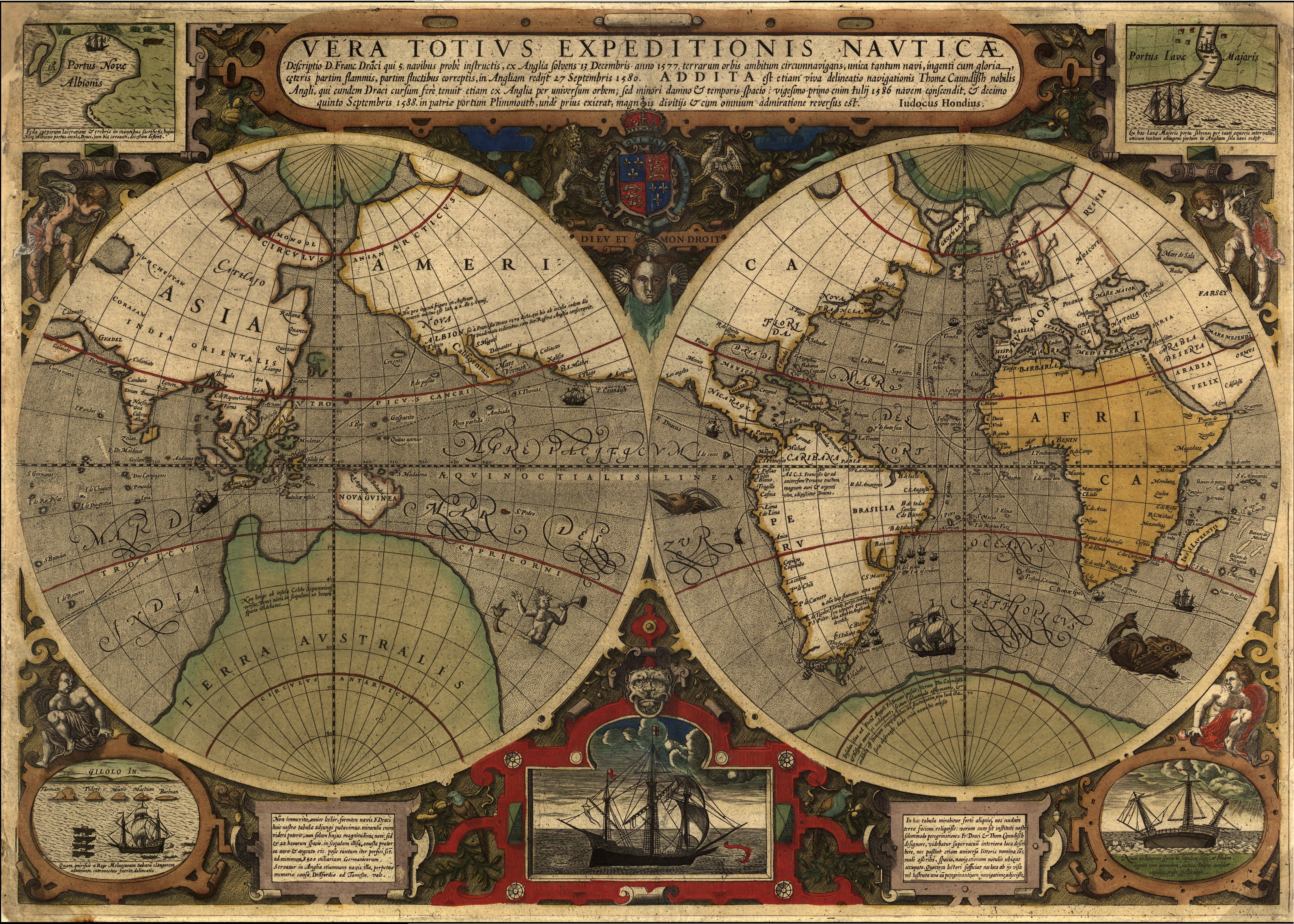 World Map; Records the first English circumnavigation of the globe by Sir Francis Drake (1577-1580), as well as that of his countryman Thomas Cavendish a few years later (1586-1588). The map portrays the outlines of continents leaving the interiors blank, suggesting that the land areas were left unexplored. The marginalia includes the Elizabethan coat-of-arms, a vignette of Drake's ship the Golden Hind, and four corner illustrations. The drawing in the upper-left corner shows Drake's landing at Nova Albion in present-day California. Title: Vera Totius Expeditionis Nauticae.